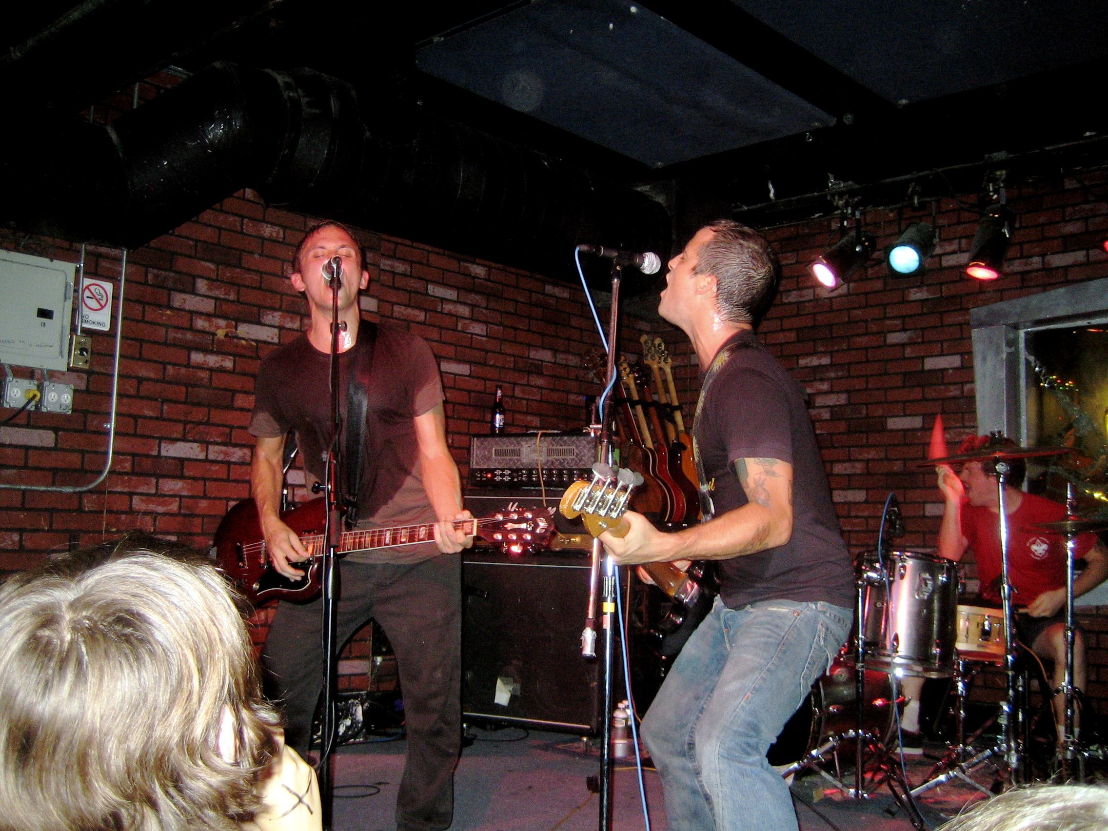 The Lawrence Arms performing at the Bottom of the Hill in San Francisco, California on July 6, 2005.